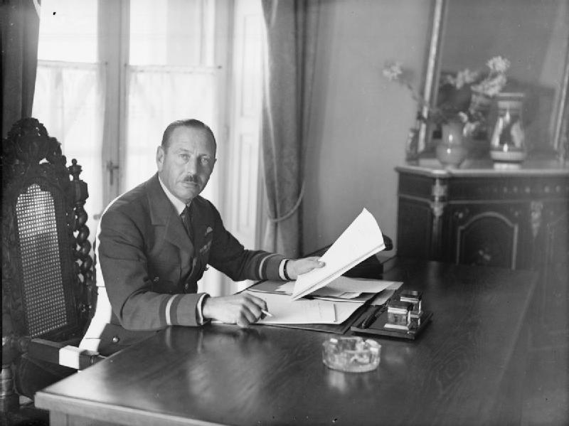 Air Commodore J H D'Albiac, Air Officer Commanding British Forces in Greece, sitting at his desk in his Headquarters at the Grande Bretagne Hotel, Athens. He was promoted acting Air Vice-Marshal on 15 November.